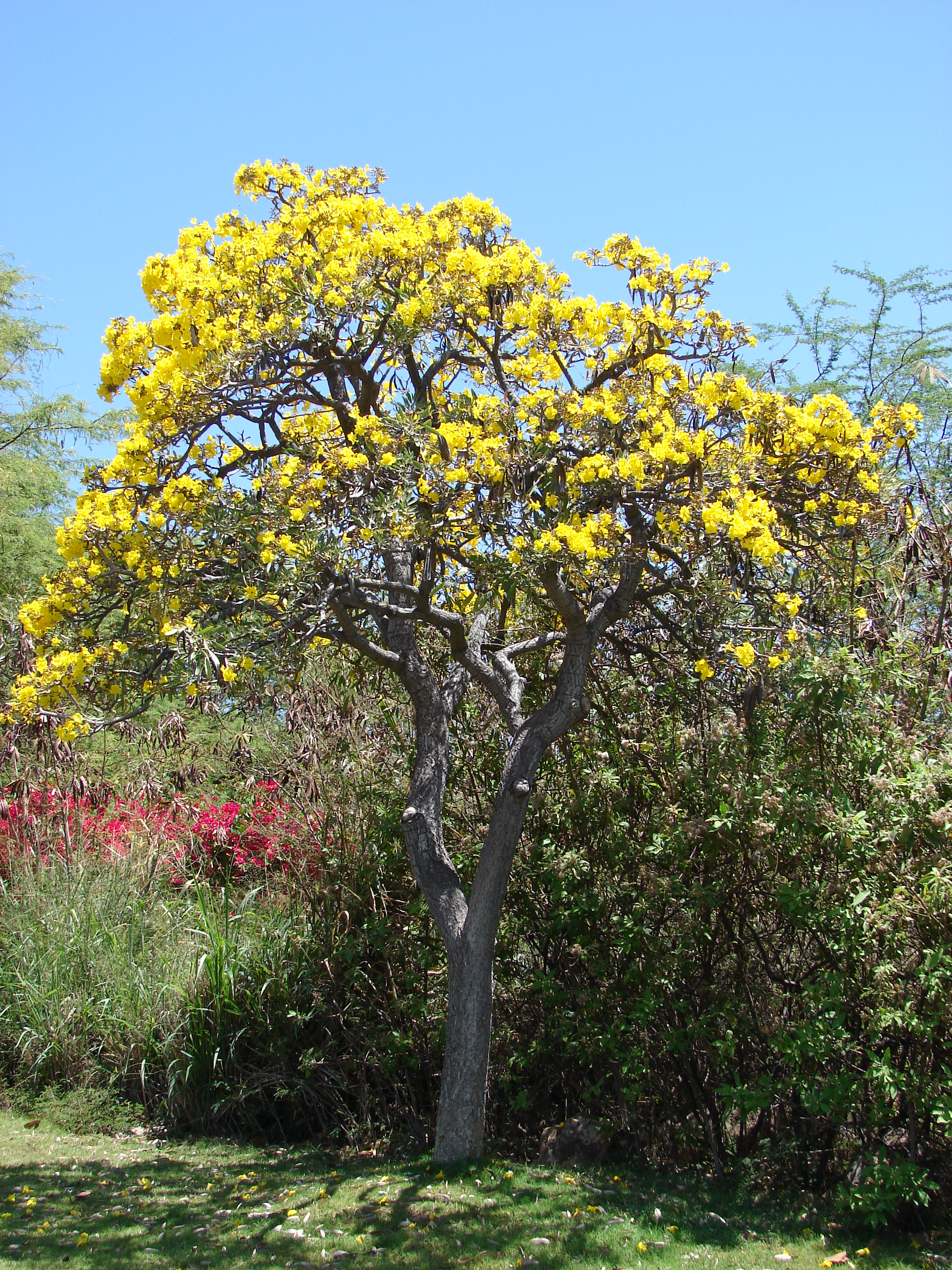 Tabebuia aurea (flowering habit). Location: Lanai, Hulopoe